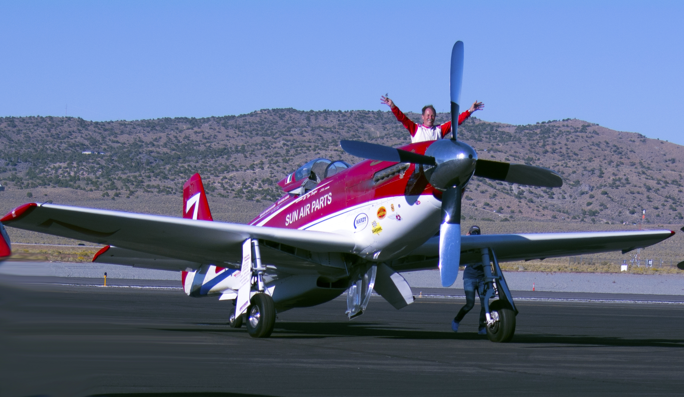 Strega wins 2015 Reno Air Races by D Ramey Logan